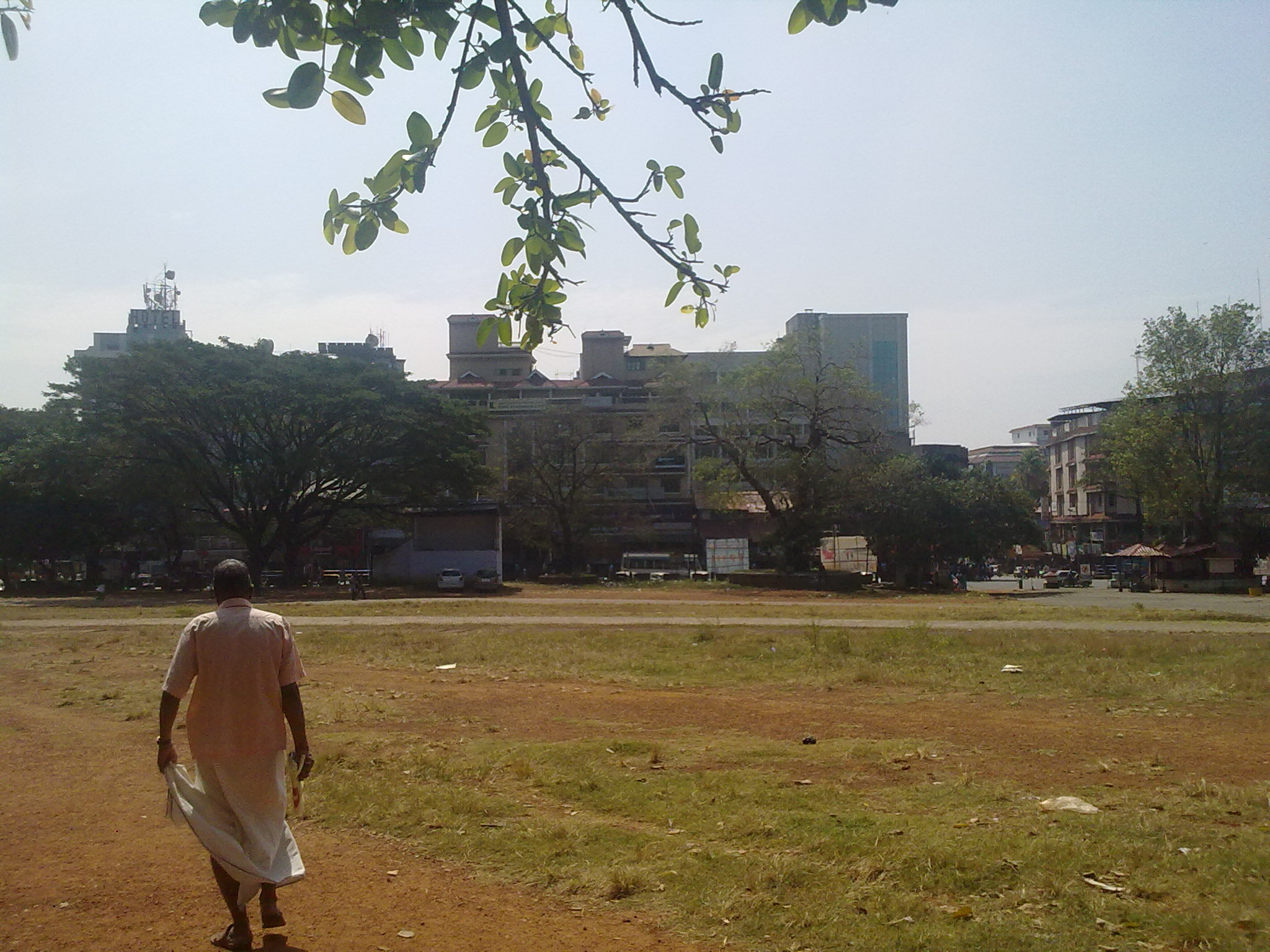 Skyline of Thrissur city as viewed from famous Thekkinkadu Maidan